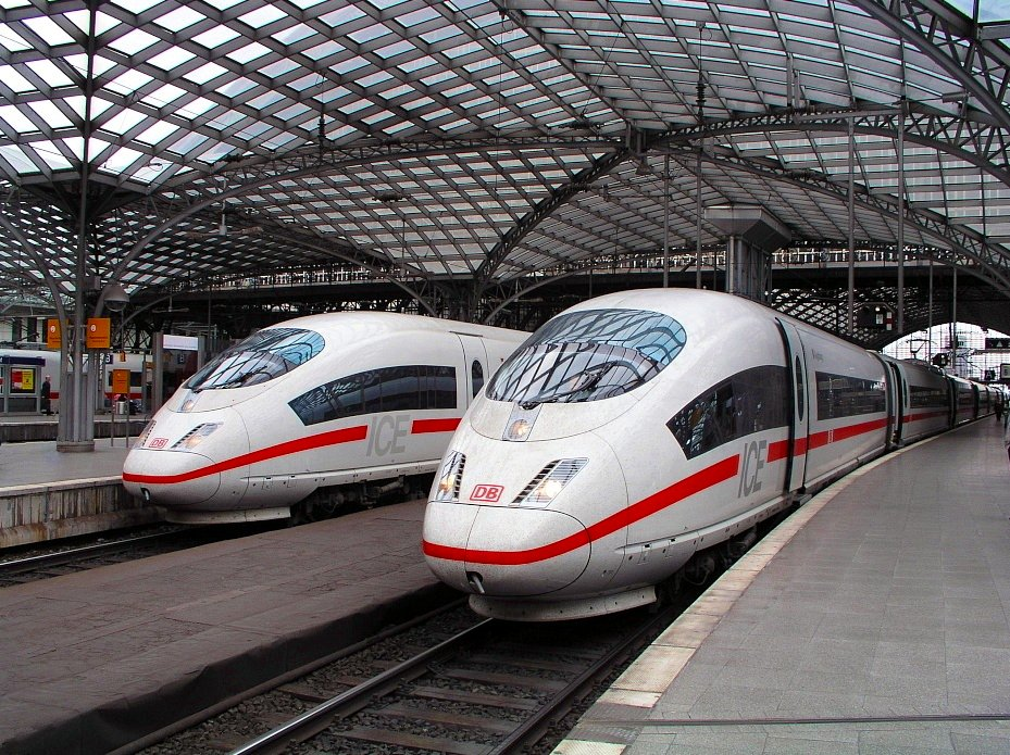 Two InterCityExpress ICE3 in Cologne central station